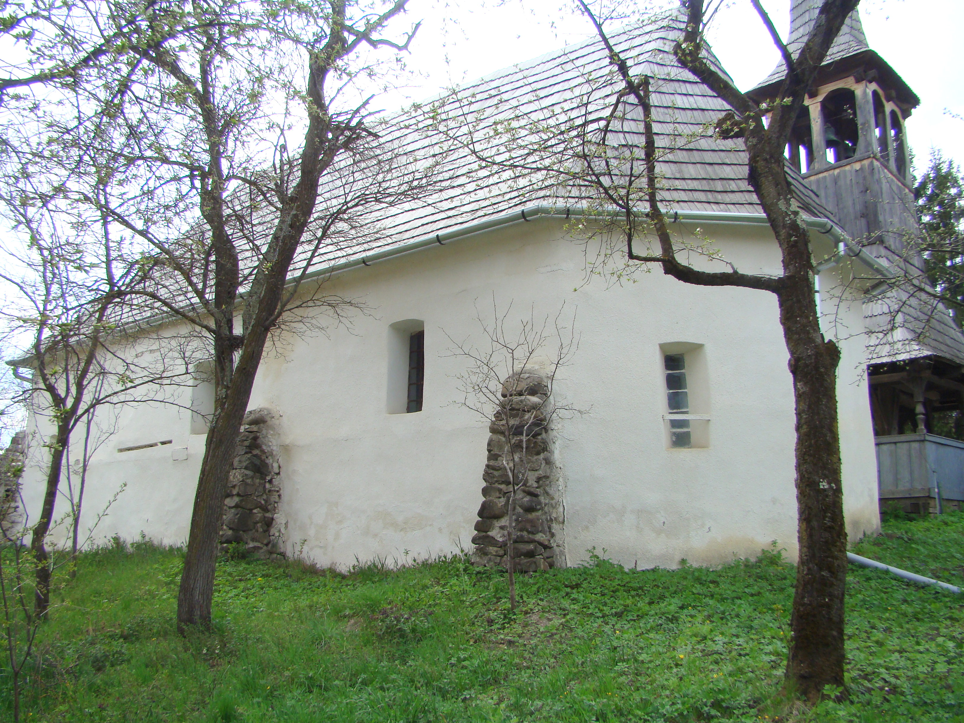 Reformed church in Satu Mic, Harghita county, Romania